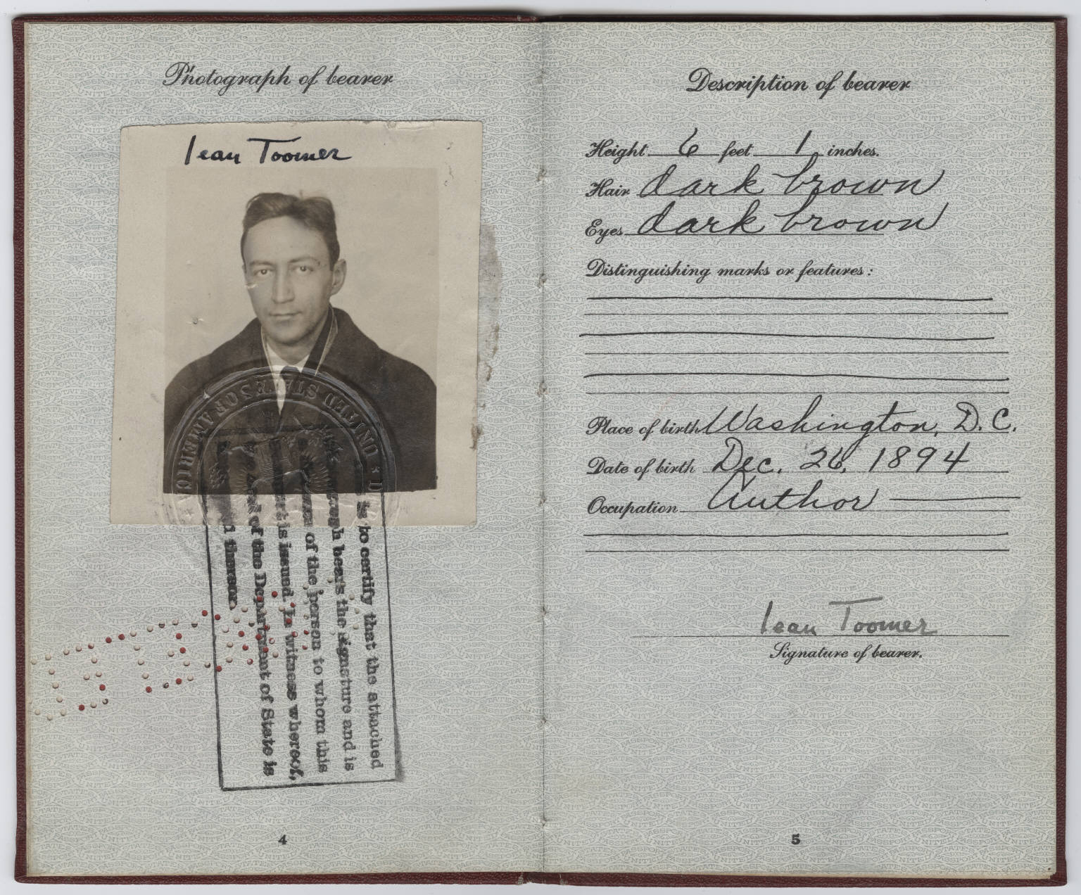 Passport issued to writer Jean Toomer (1894-1967) by the United States Government. 16 cm. Jean Toomer Papers, Yale Collection of American Literature, Beinecke Rare Book and Manuscript Library, Yale University, New Haven, Connecticut.